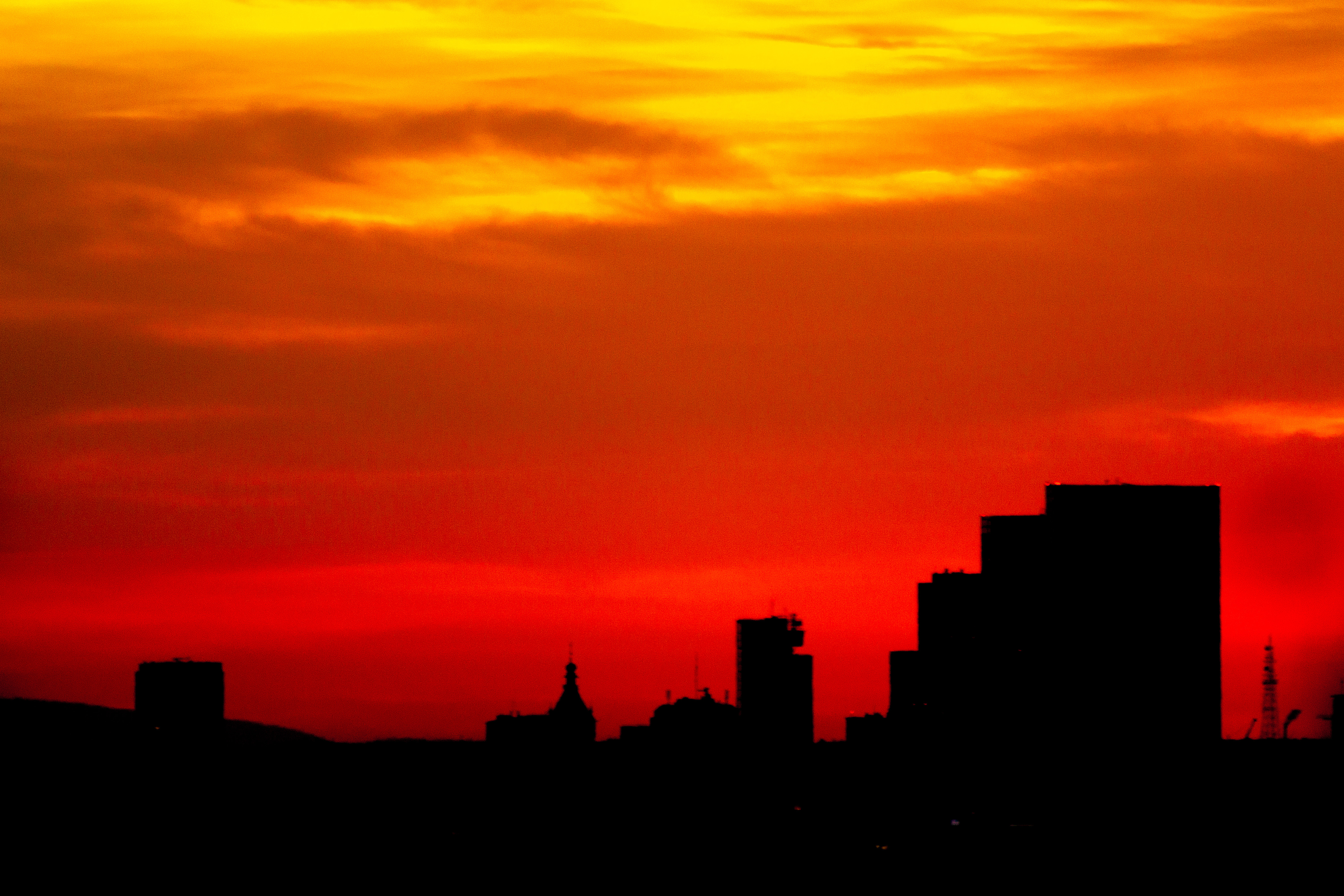 sunrise in vienna, october 20th, 2014